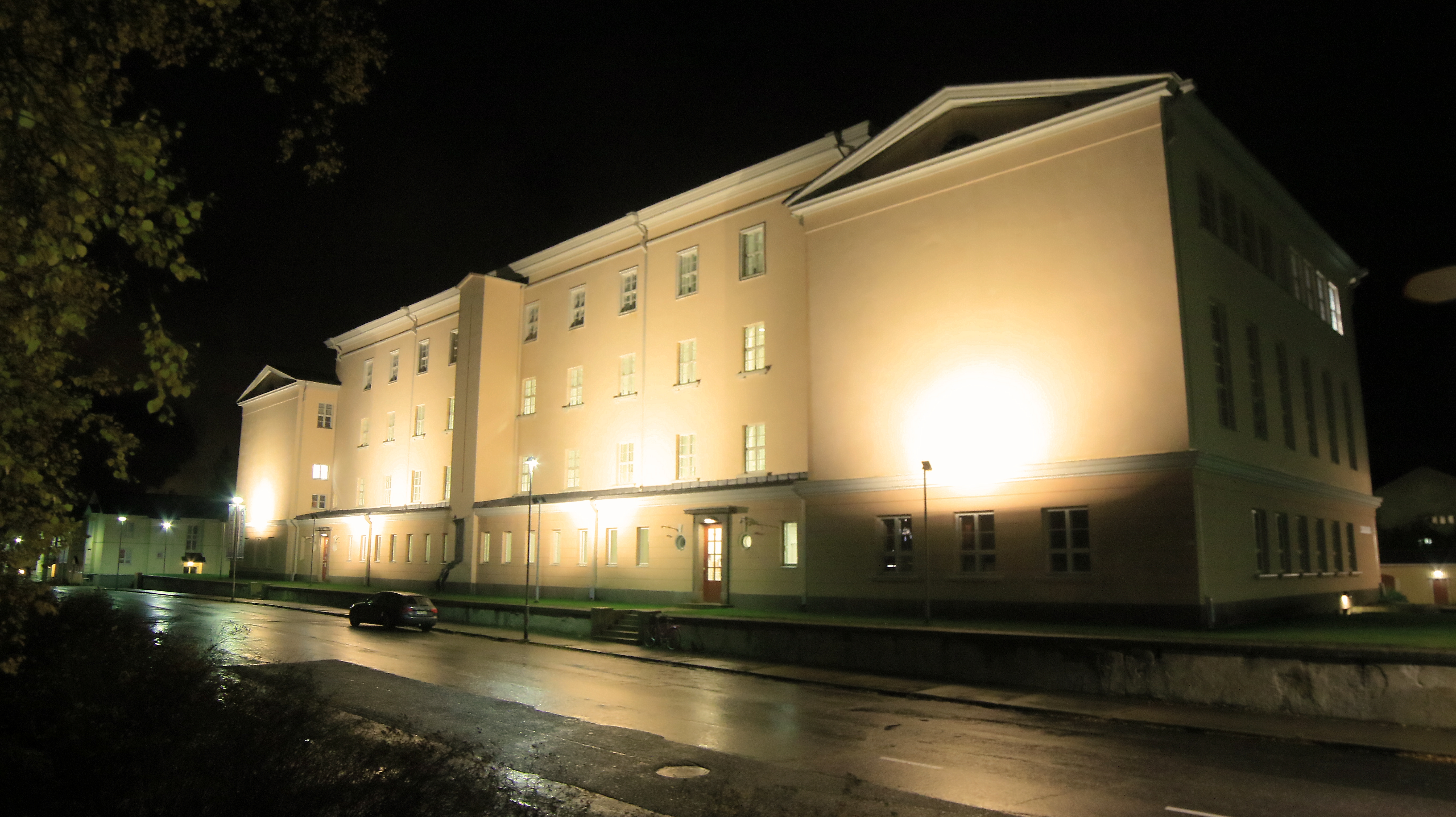 Kemi secondary upper school.